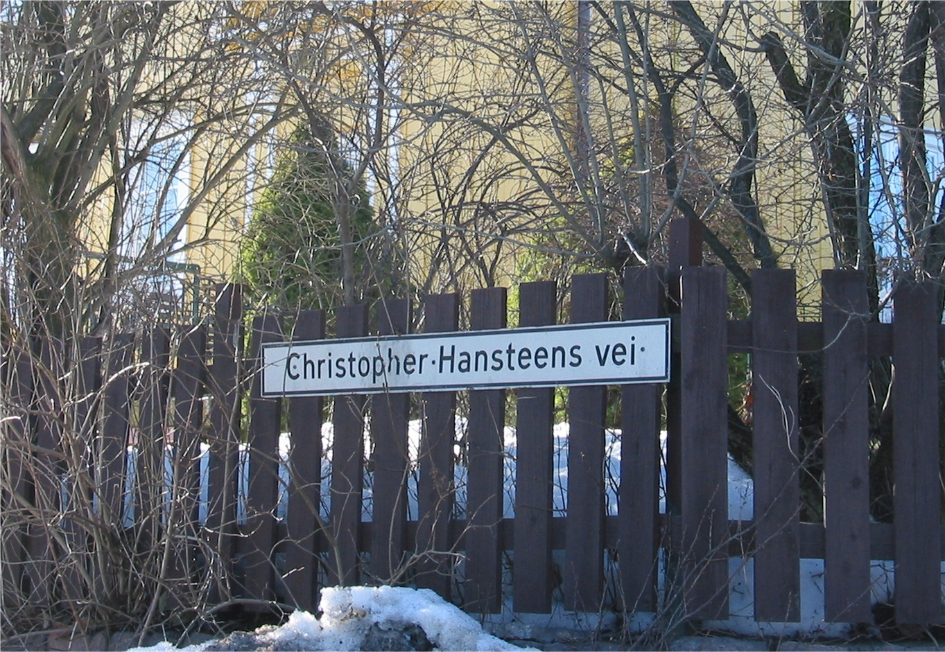 Road sign for Christopher Hansteens vei, a road at Blindern, Oslo, named after Christopher Hansteen. Largely obscured by bushes, especially during the summer.